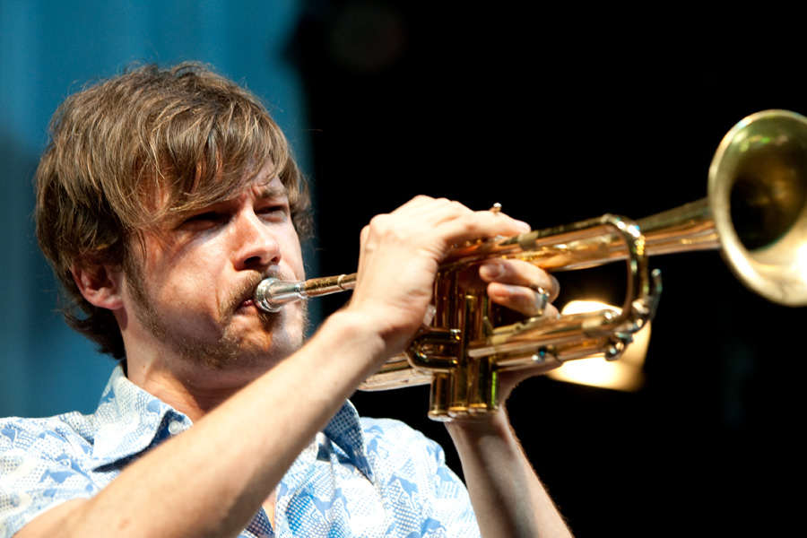 Matthias Schriefl, moers festival 2010